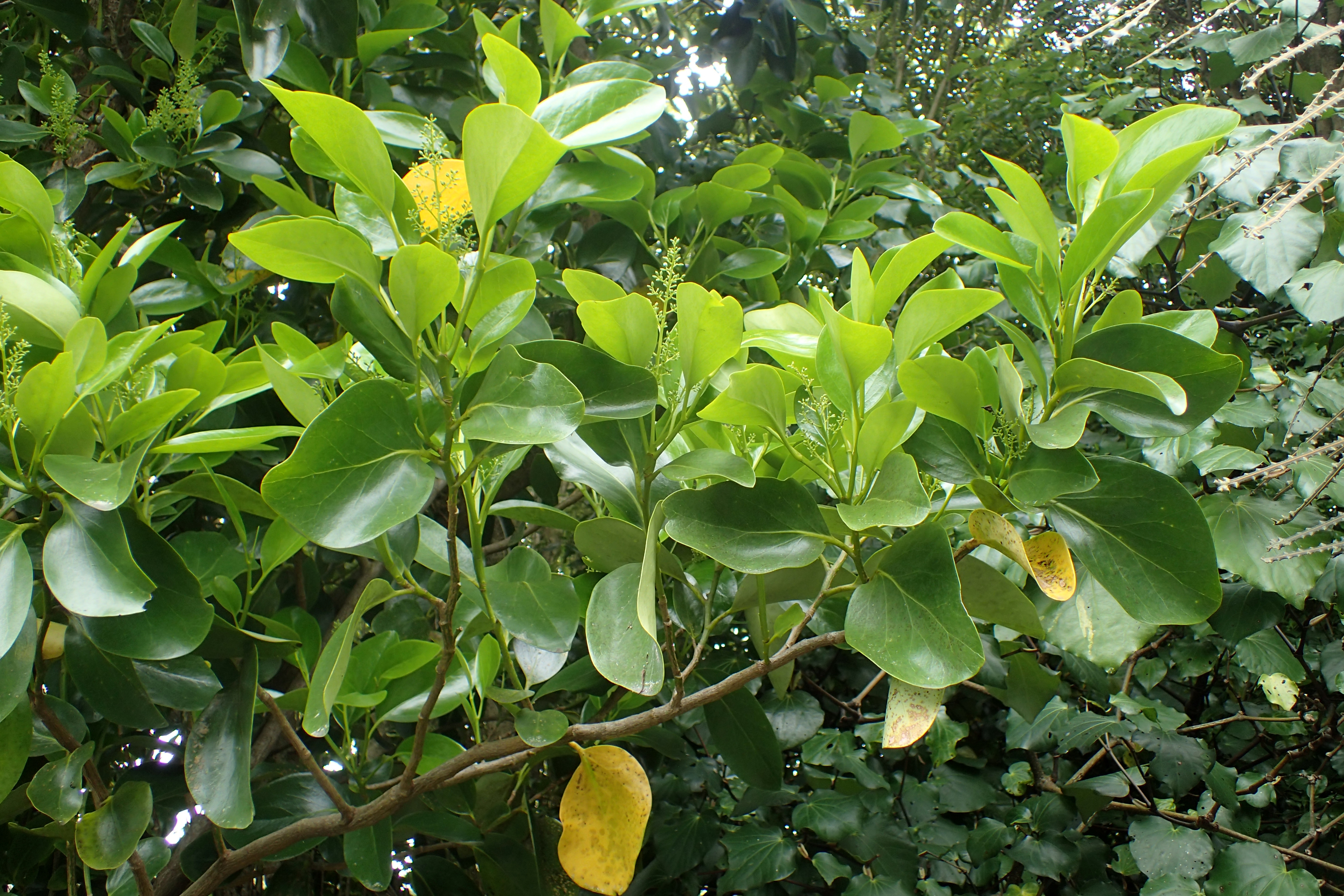 Griselinia lucida in Auckland Botanic Gardens